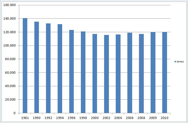 Evolution of the population in Santa Coloma de Gramenet.